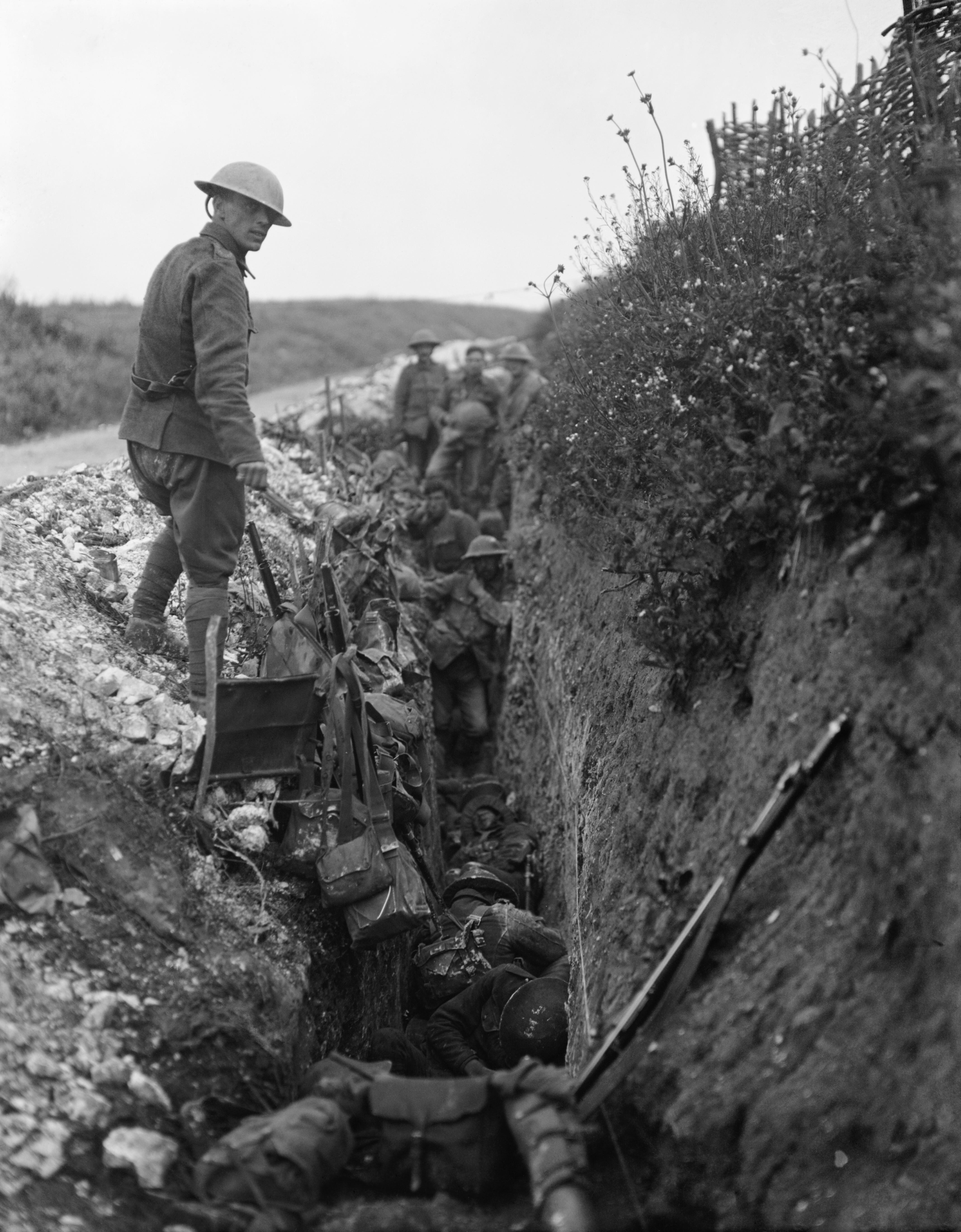 The Battle of the Somme, July - November 1916 Royal Engineers No.1 Printing Company. Troops waiting, some still asleep, in a support trench shortly before zero hour, Beaumont Hamel.